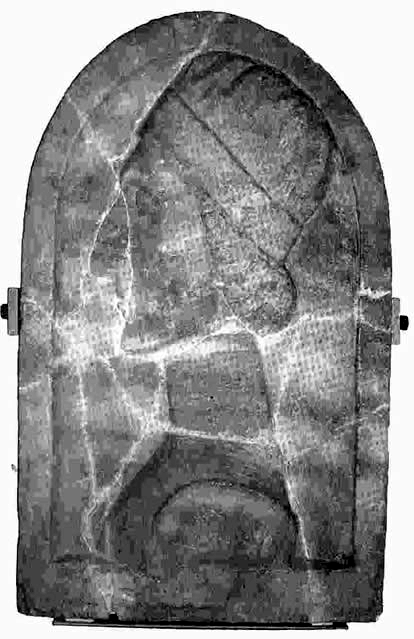 Portrait of Cyriaco of Ancona, relief carving, 15th century, Museo della Città di Ancona. Identified by Gablriele Baldelli in "Su due pretesi ritratti anconetani," Cyriaco d'Ancona e la cultura antiquaria dell'Umanesimo: Atti del convegno internazionale di studio, Ancona 6-9 febbraio 1992. Ed. Gianfranco Paci & Sergio Sconocchia. 1998.